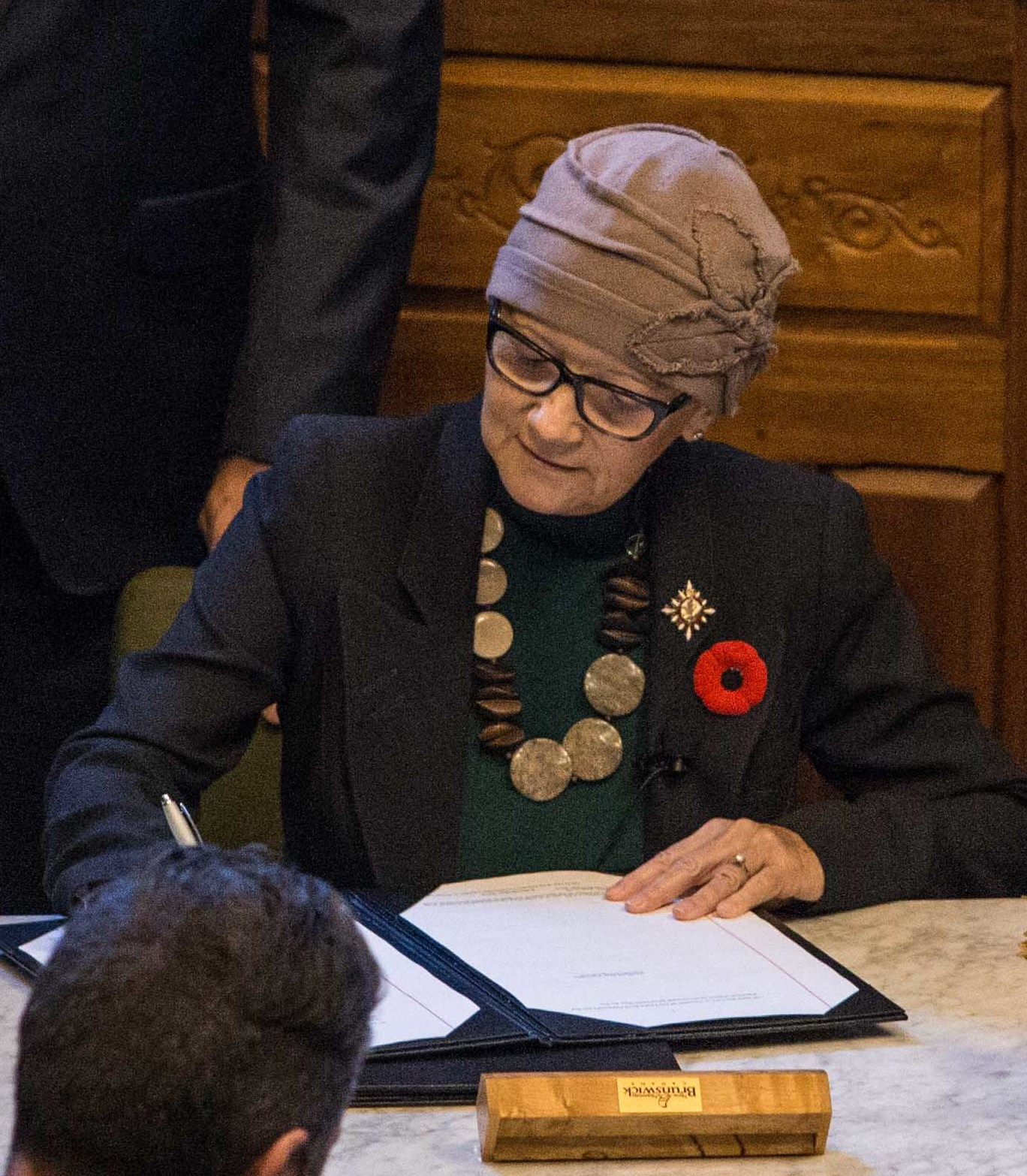 November 9th- Swearing In Ceremony / Cérémonie de l'assermentation - le 9 novembre